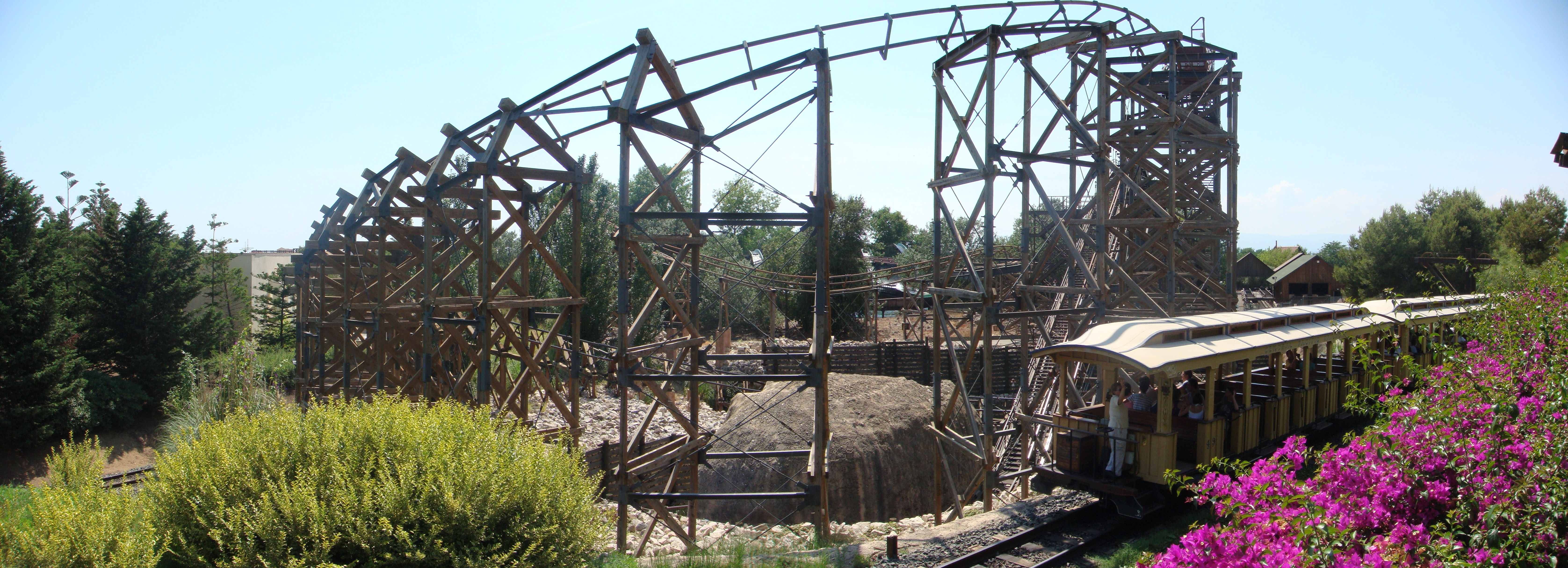 Diablo and Train.